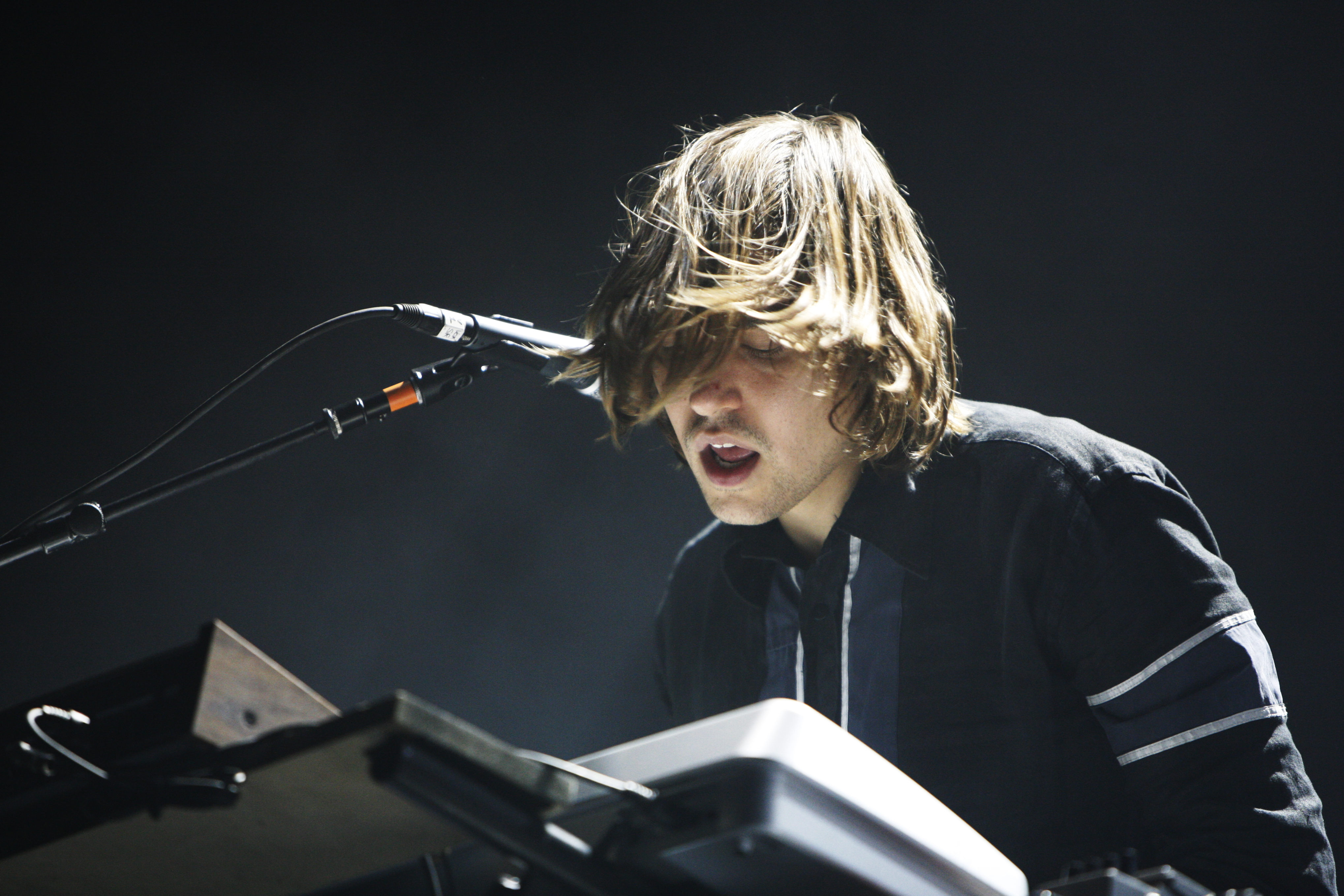 Arcade Fire at the Eurockéennes of 2007